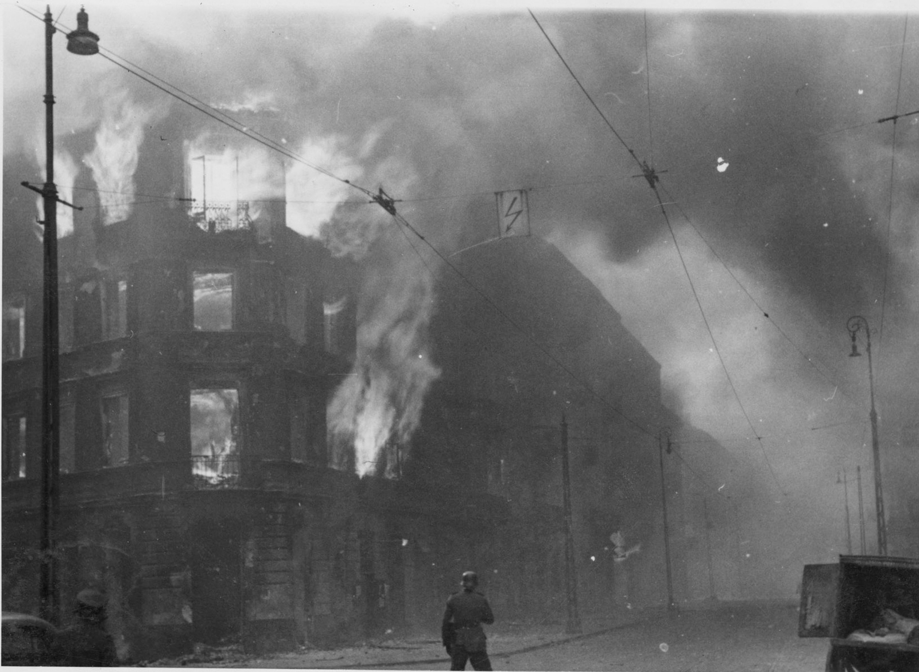 Warsaw Ghetto Uprising- A housing block burns during the suppression of the Warsaw ghetto uprising.